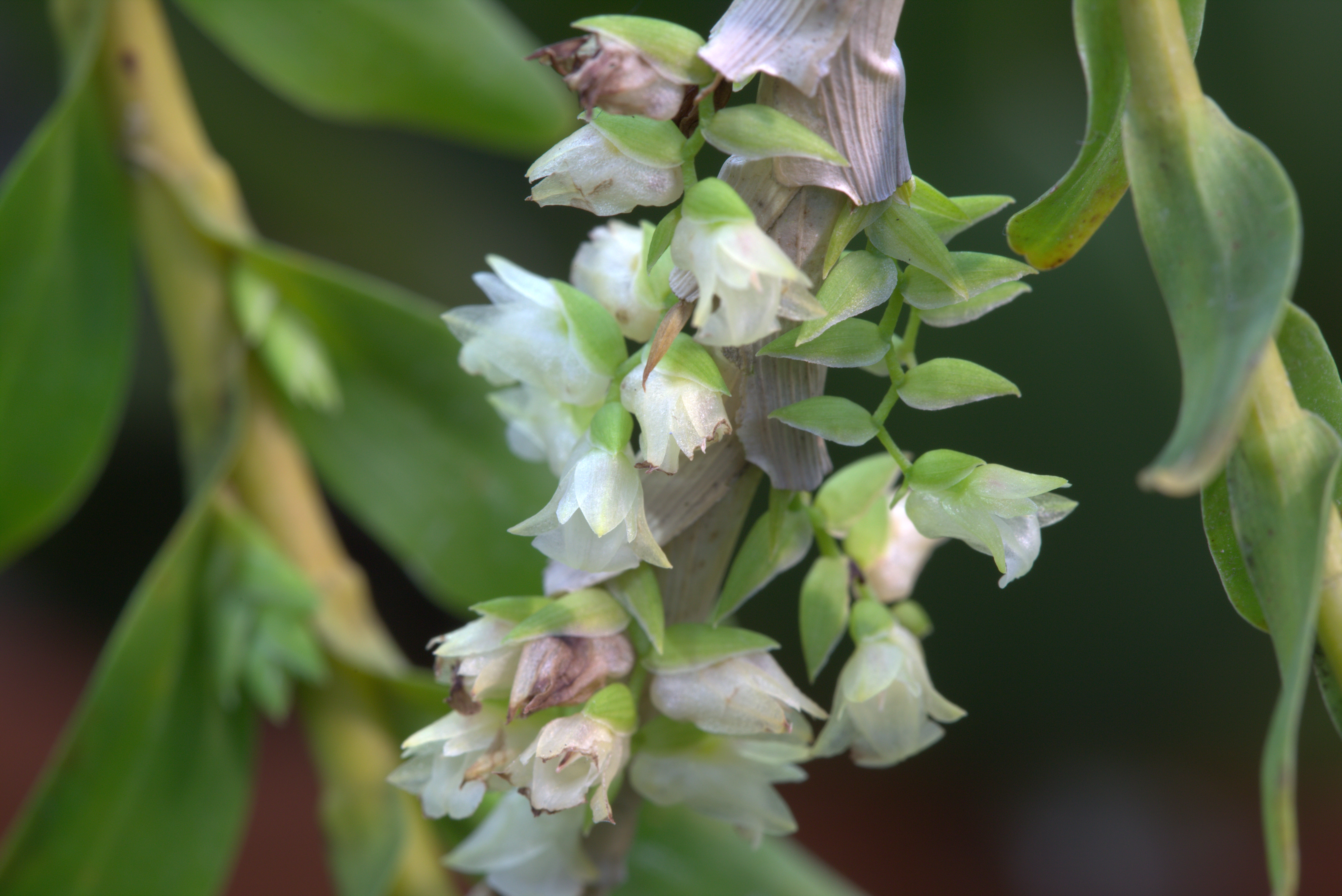 Appendicula cornuta in Gothenburg botanical garden. Plant id: 1992-V0609 p W